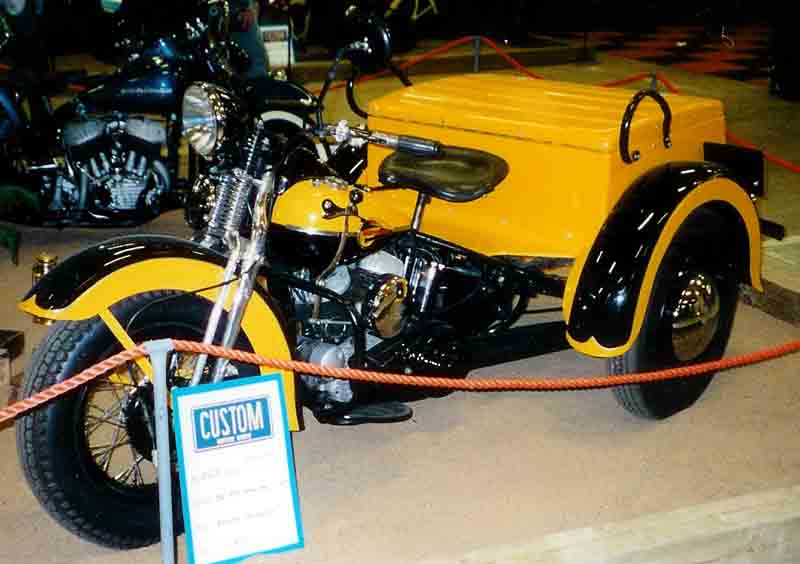 Harley-Davidson Servicar